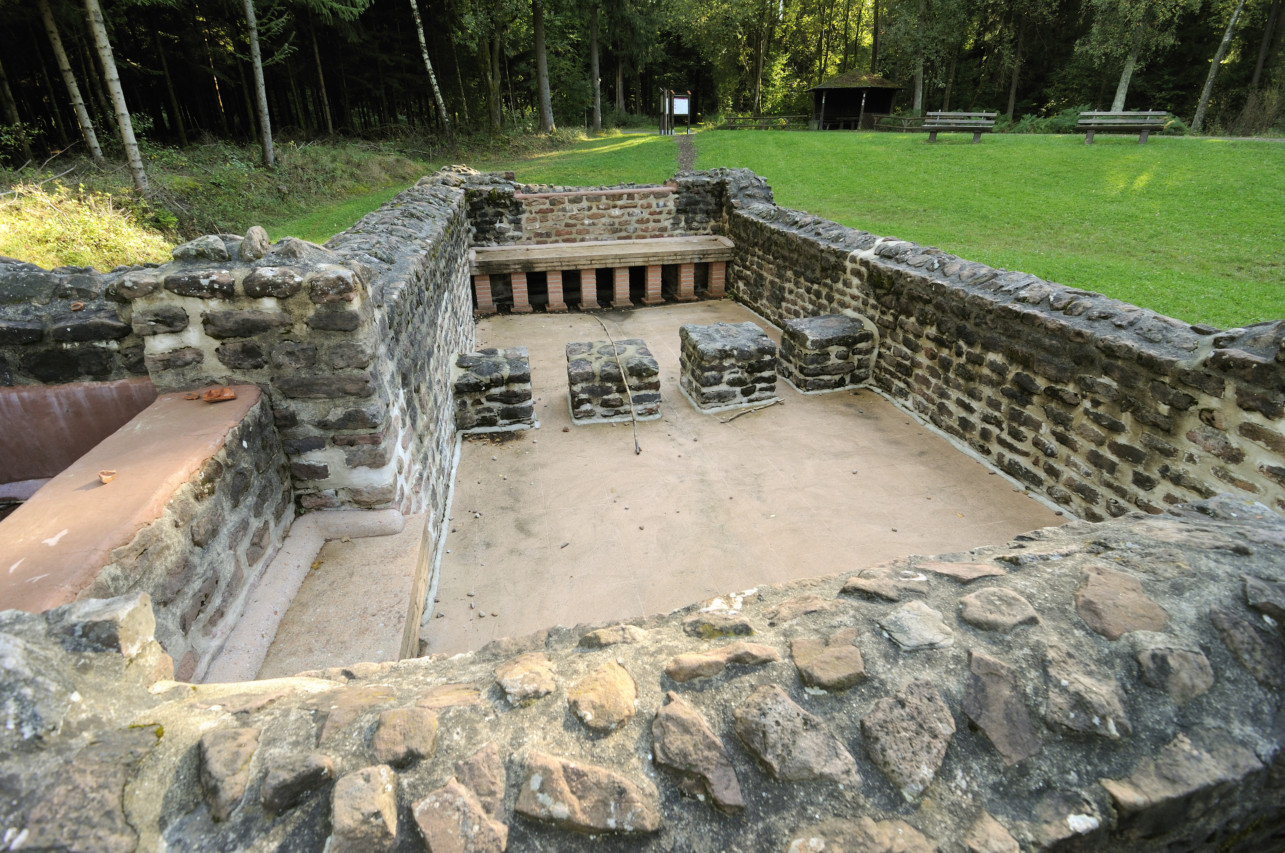 Castellum and Roman Baths Würzberg.